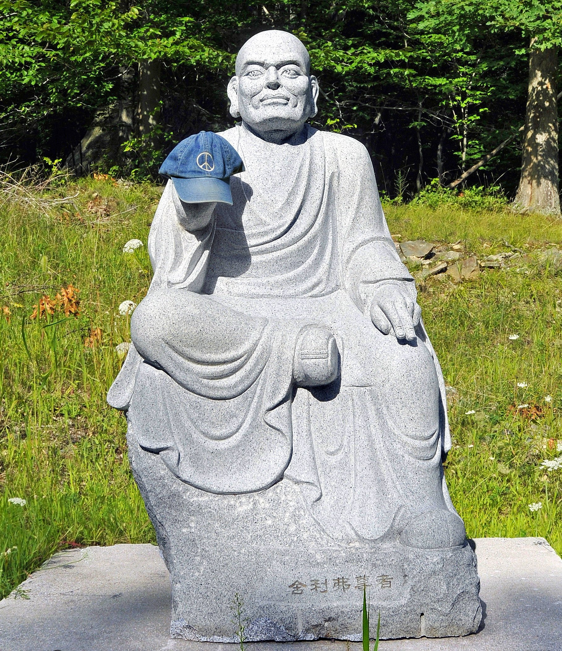 Tony and I had another great day today. We stopped at the Chuang Yen Monastery in New York to learn about Buddhism and see this beautiful place. I found out that Sariputta - this is his likeness - was Buddha's foremost disciple. He was second to Buddha in wisdom and excelled at taking cues from Buddha and then delivering sermons on the subject. He was an excellent student of the Dhamma (the teachings of the Buddha) and taught it to others so they could understand too, like I am doing now! He was Buddha's true spiritual son! - The Peace Hat